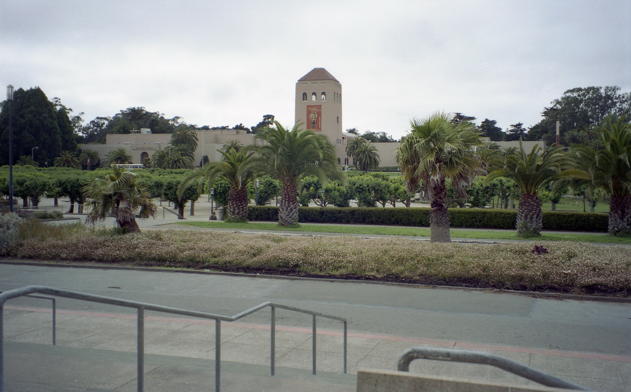 Previous De Young building that was torn down in San Francisco's Golden Gate Park's Music Concourse. Circa some time before 2000 as there appears to be an exhibit banner on the outside and the museum was closed to the public at the end of 2000.